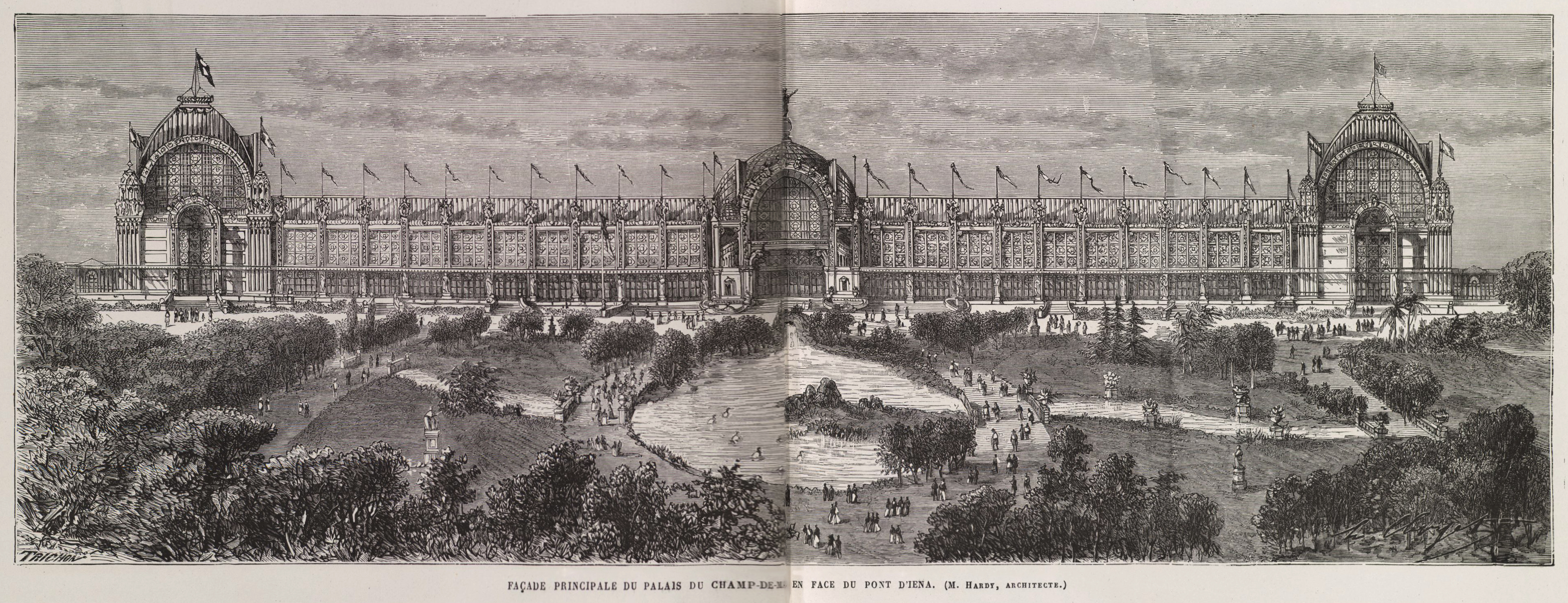 View of the Palais du Champ-de-Mars, from the Iéna bridge. The Palais was facing the Trocadéro, and was located on the site where the Eiffel Tower is now standing.